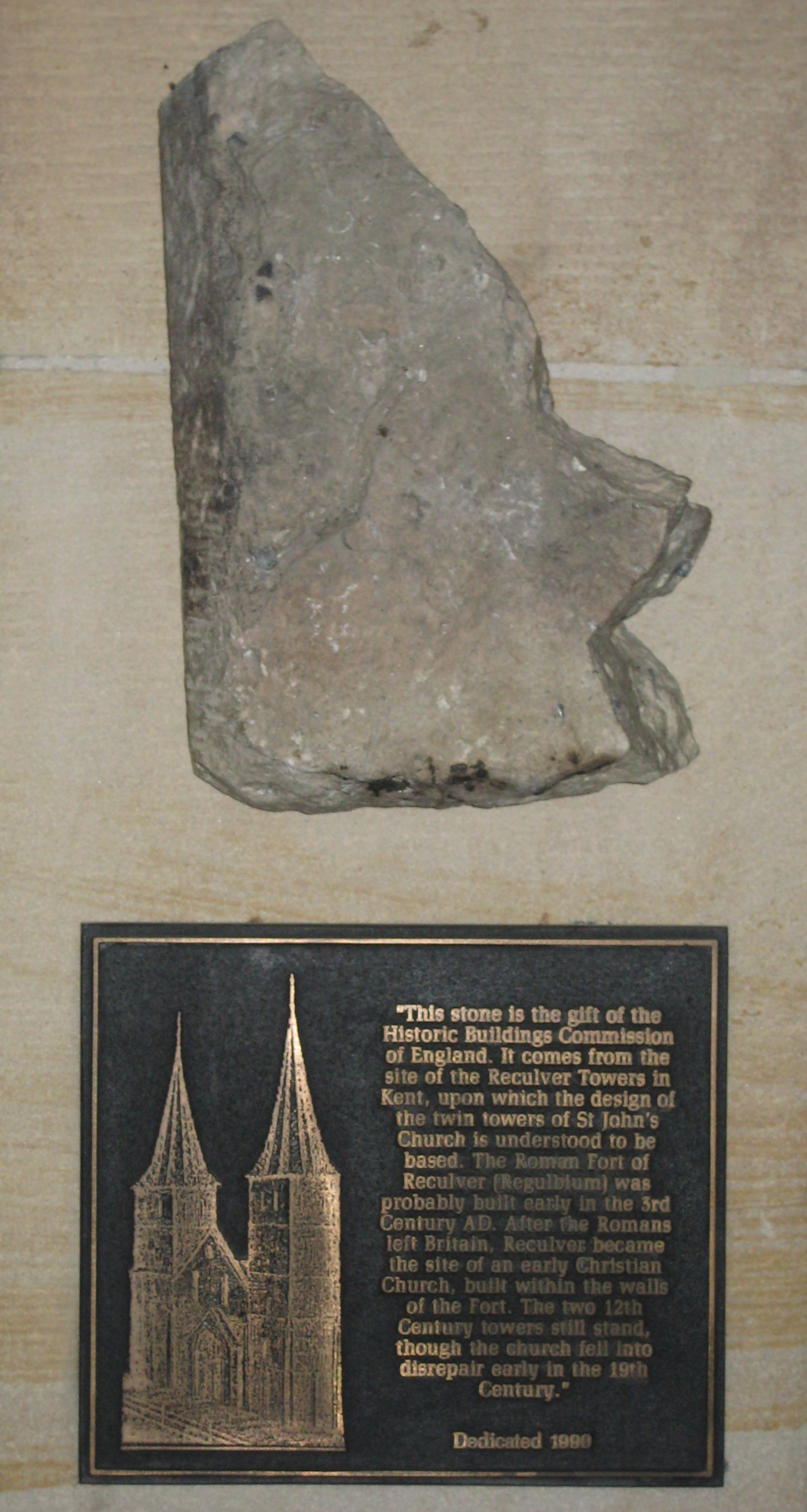 Plaque in St Johns, Parramatta, NSW, explaining link to Reculver church, Kent, UK